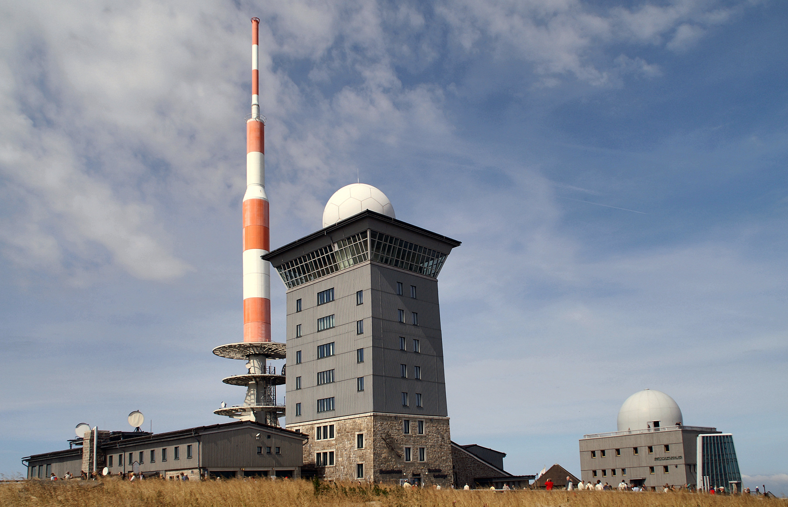 Brocken Transmitter on the peak of the Brocken.